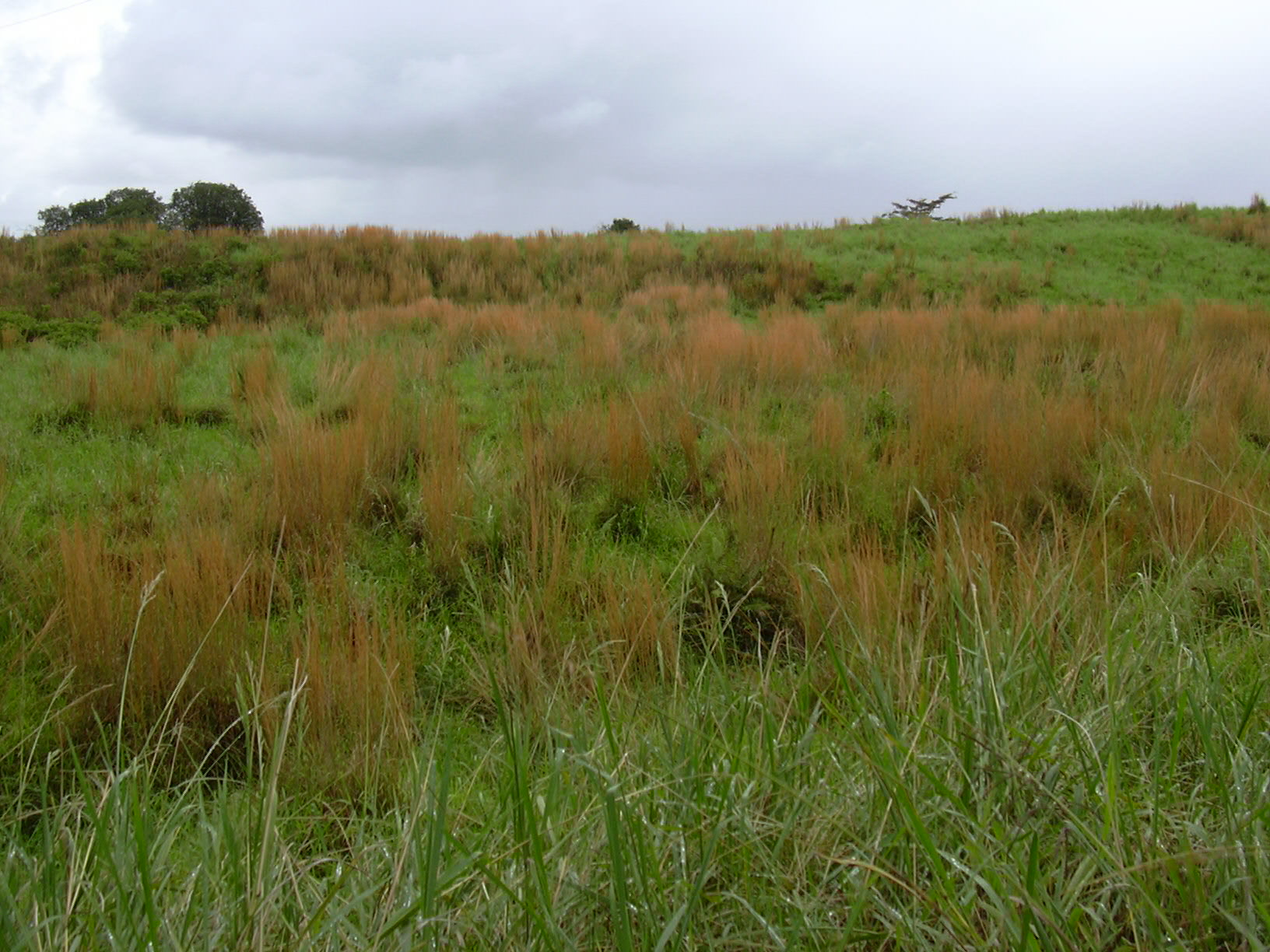 Andropogon virginicus (habit). Location: Hawaii, Hilo